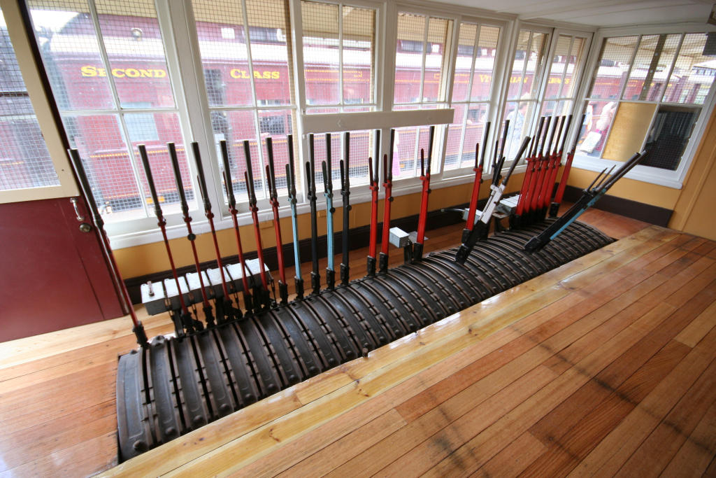 Mechanical interlocking frame at Avenel, Victoria, Australia